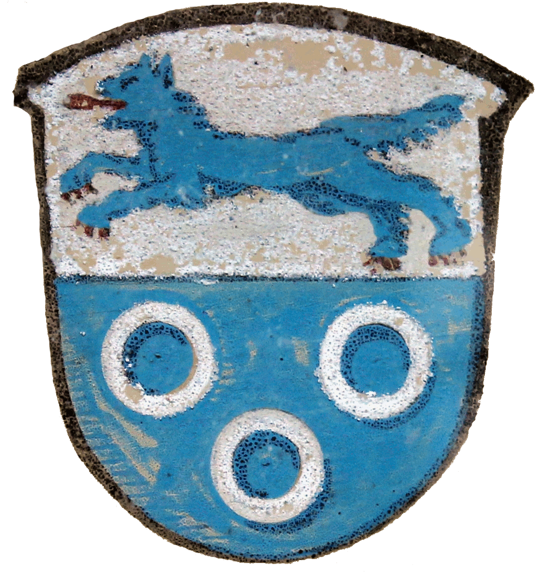 Coat of arms of the ancient knights of Wolfershausen and today of the village of Wolfershausen